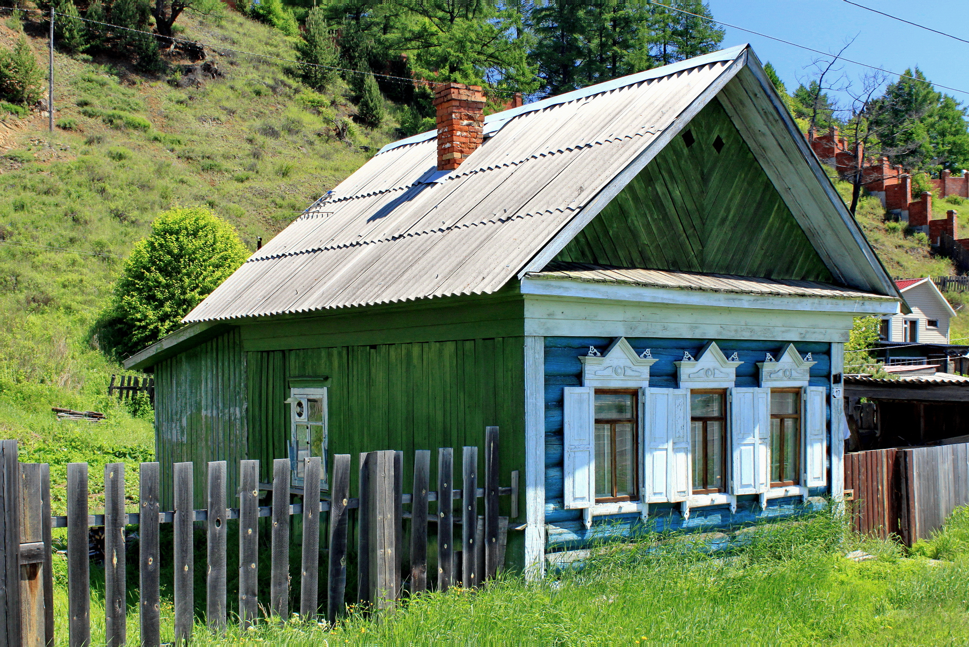 The wooden house. Listvyanka, Russia.